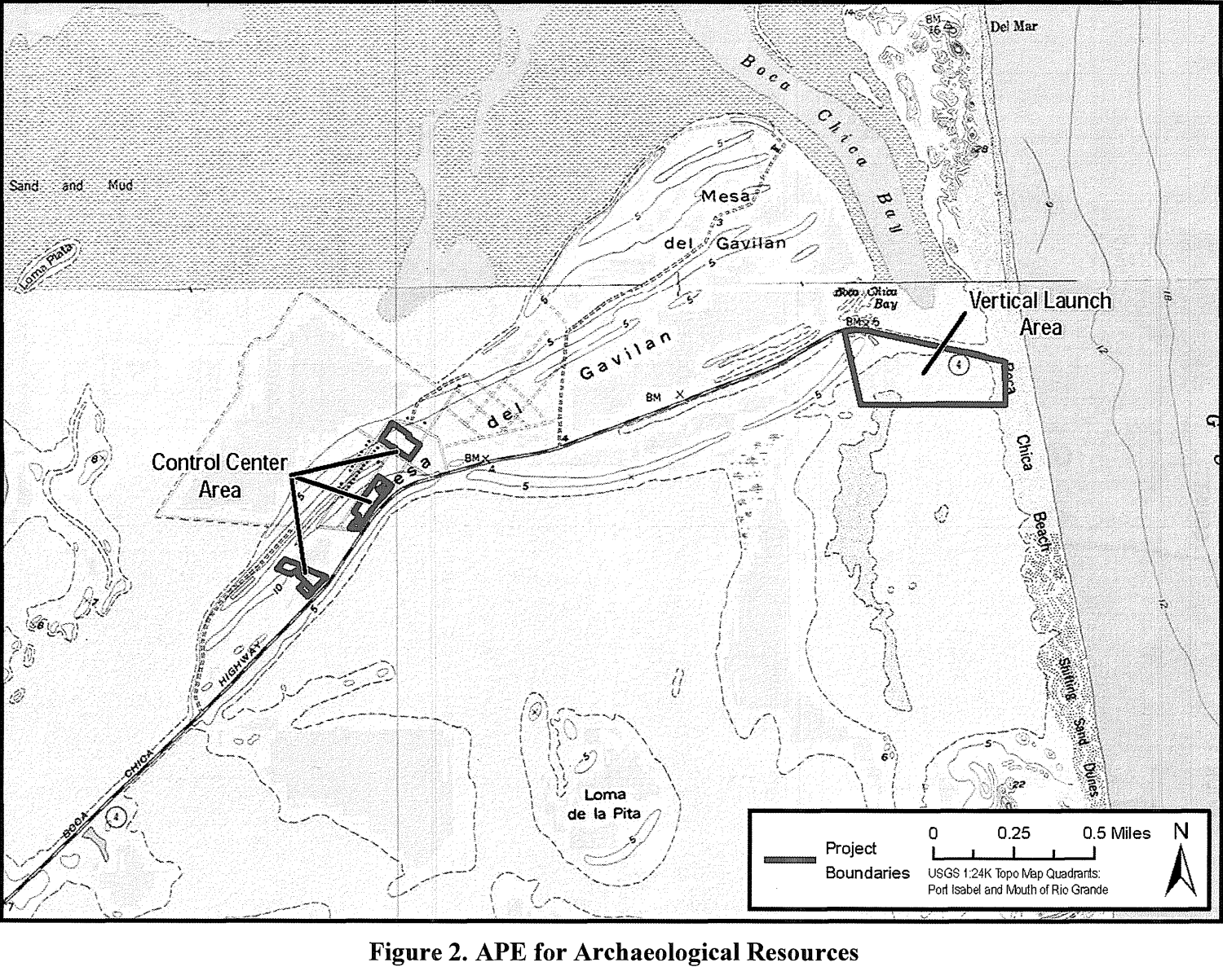 Map of the proposed SpaceX private launch facility near Brownsville, Texas, featuring locations for the control center and vertical launch areas.